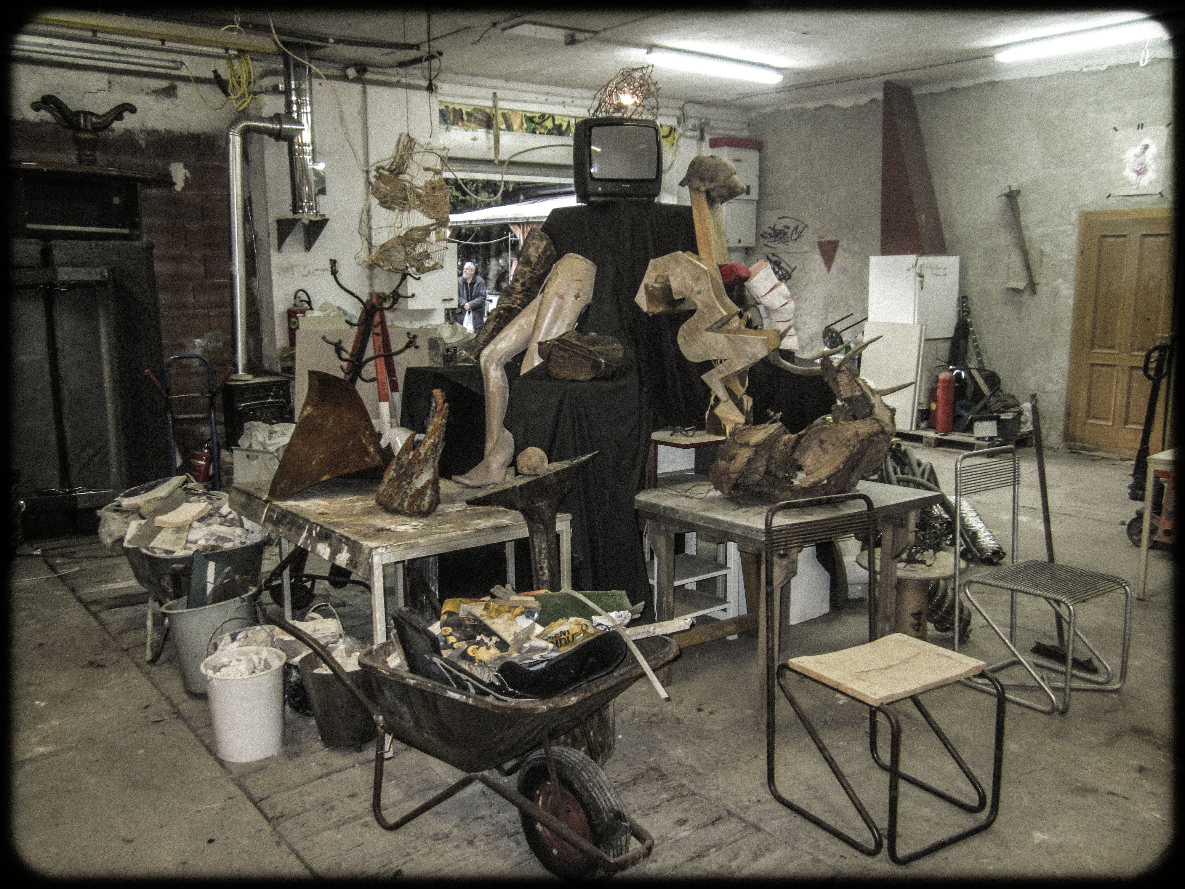 Eine Skulptur aus mehreren Gegenständen und Arbeiten in der Bildhauerhalle des Kunstverein Roter Keil